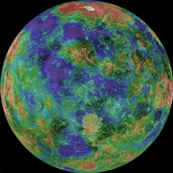 If the thick clouds covering Venus were removed, how would the surface appear? Using an imaging radar technique, the Magellan spacecraft was able to lift the veil from the Face of Venus and produce this spectacular high resolution image of the planet's surface. Red, in this false-color map, represents mountains, while blue represents valleys. This 3-kilometer resolution map is a composite of Magellan images compiled between 1990 and 1994. Gaps were filled in by the Earth-based Arecibo Radio Telescope. The large yellow/red area in the north is Ishtar Terra featuring Maxwell Montes, the largest mountain on Venus. The large highland regions are analogous to continents on Earth. Scientists are particularly interested in exploring the geology of Venus because of its similarity to Earth.